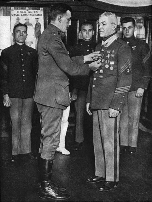 Photograph of First Sergeant Daniel Daly being awarded the Médaille militaire.